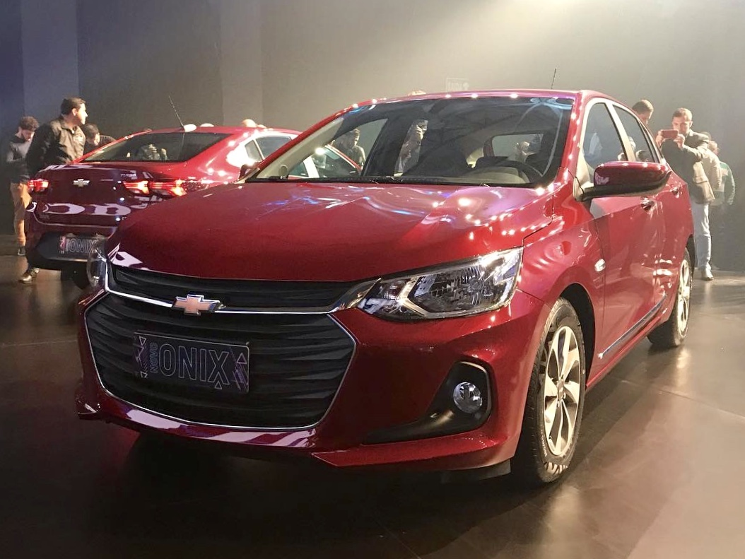 Chevrolet Onix second generation Brazil